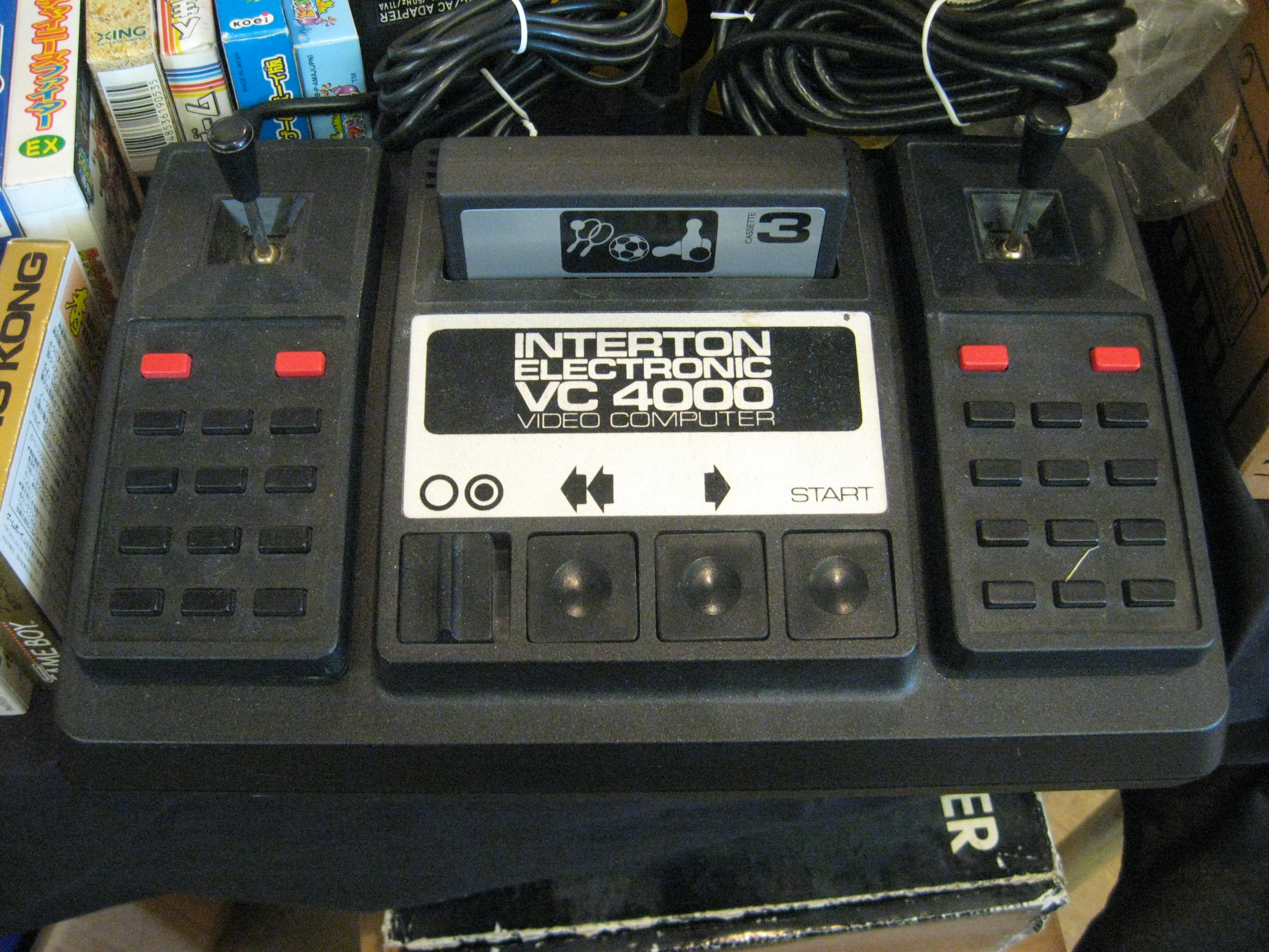 Interton Electronic VC 4000